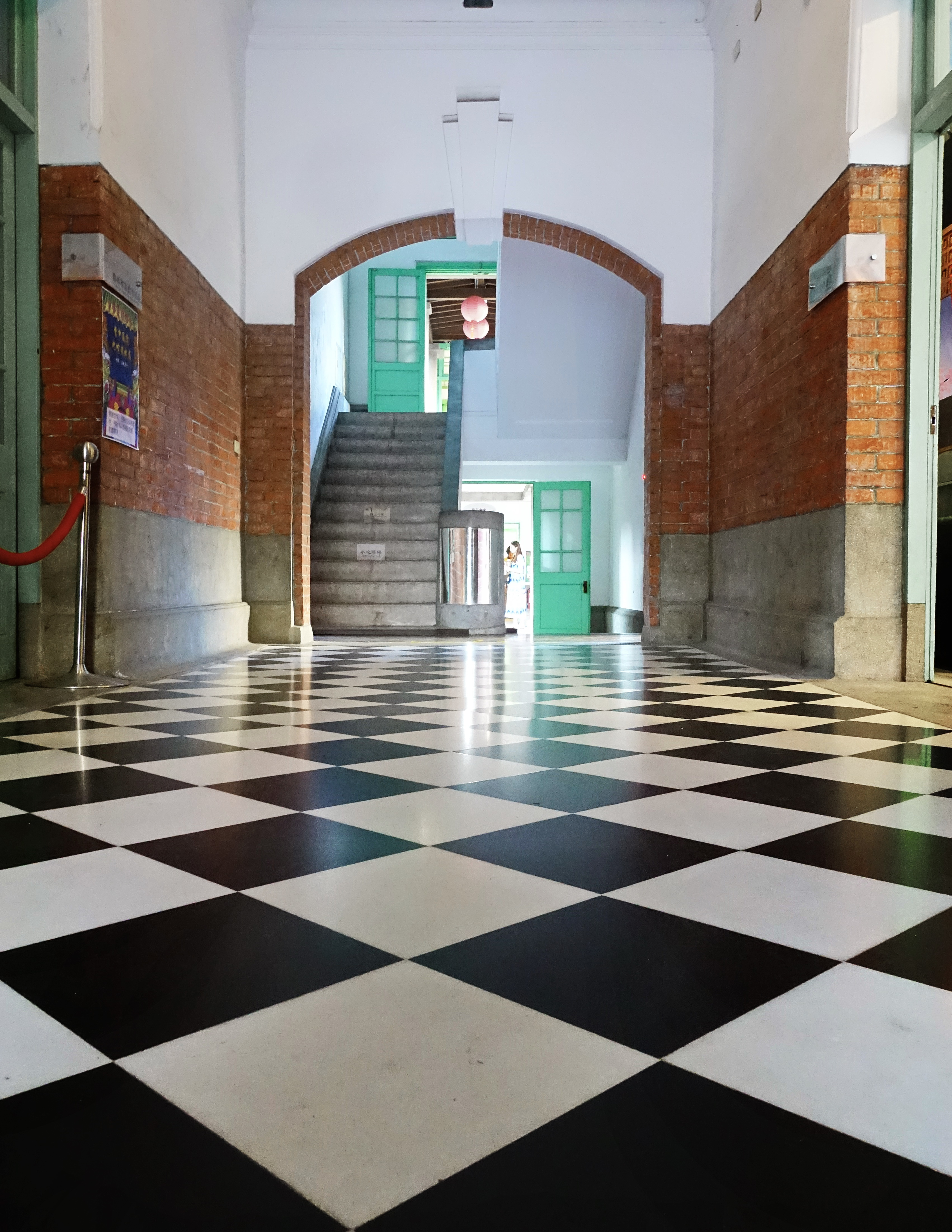 The Entrance Hall of the Yunlin Hand Puppet Museum (the former Huwei District Office), Huwei, Yunlin County, Taiwan.